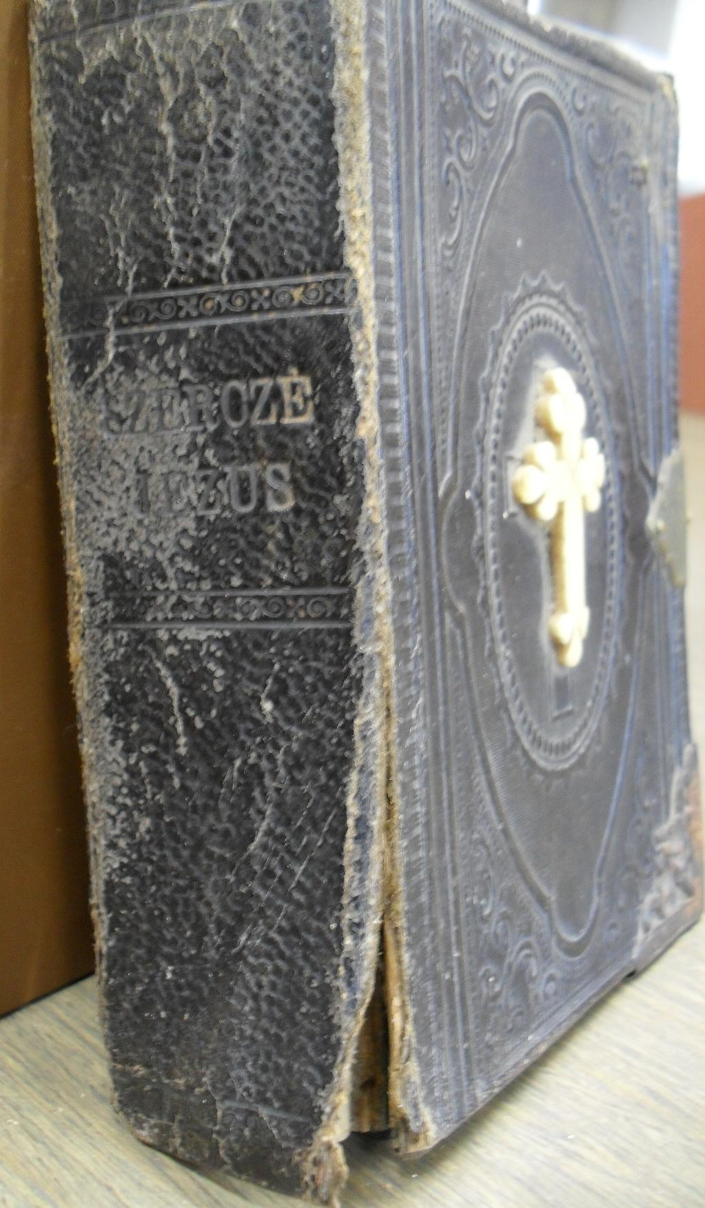 Antal Stevanecz: Szerczé Jezus (The Hearth of Jesus) prekmurian prayer and hymn book from 1896. Sometime was the property of Julianna Domiter